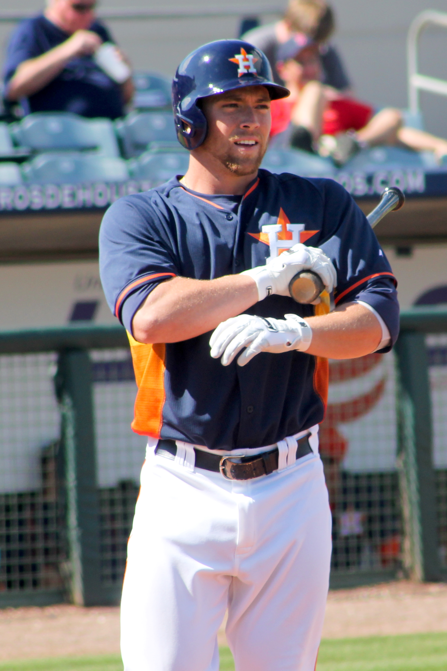 Professional baseball player Nolan Fontana at spring training with the Houston Astros in 2015.